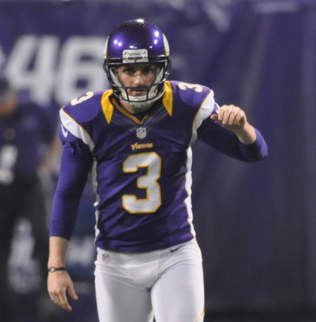 Blair Walsh of the Minnesota Vikings prepares for a kickoff while linebacker Larry Dean watches.